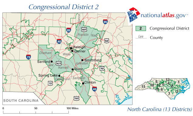 North Carolina's 2nd congressional district prior to 2012 redistricting